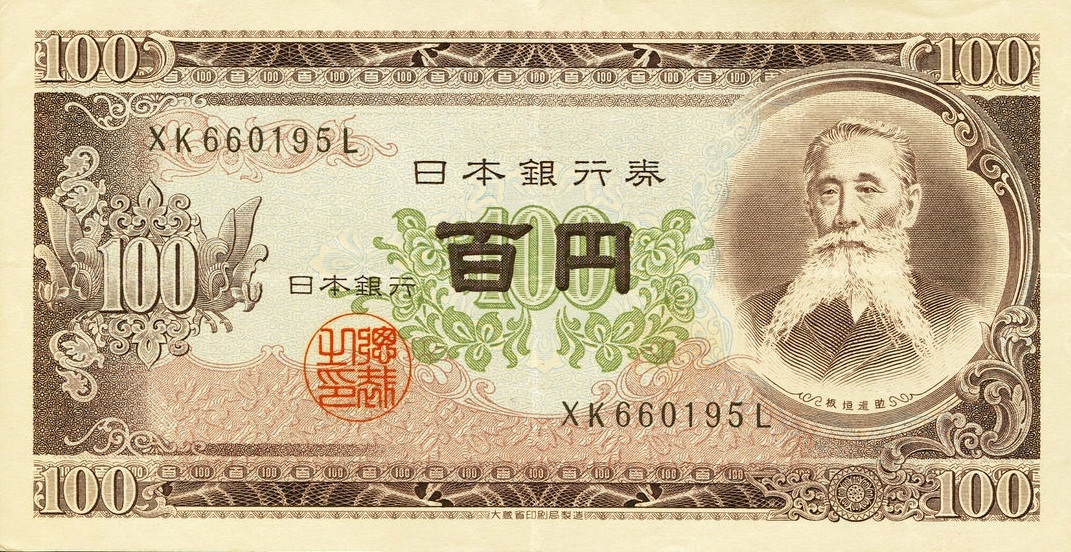 Series B 100 Yen Bank of Japan note. Portrait: Itagaki Taisuke. First issued in 1953. Issue suspended in 1974. Legal tender. 162mm x 93mm.